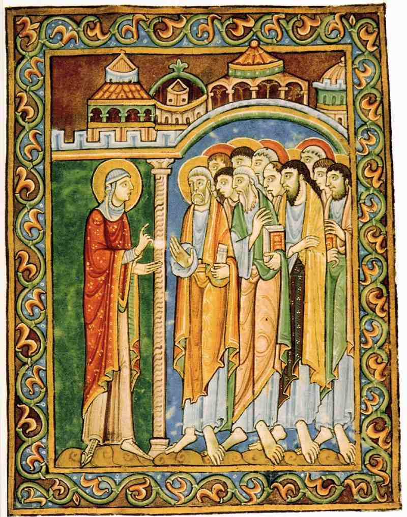 Mary Magdalen announcing the resurrection to the apostles (St. Albans Psalter, St Godehard's Church, Hildesheim) illuminated manuscripts